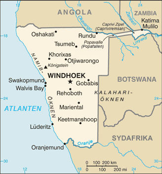 CIA map of Namibia *See also the 2004 version.